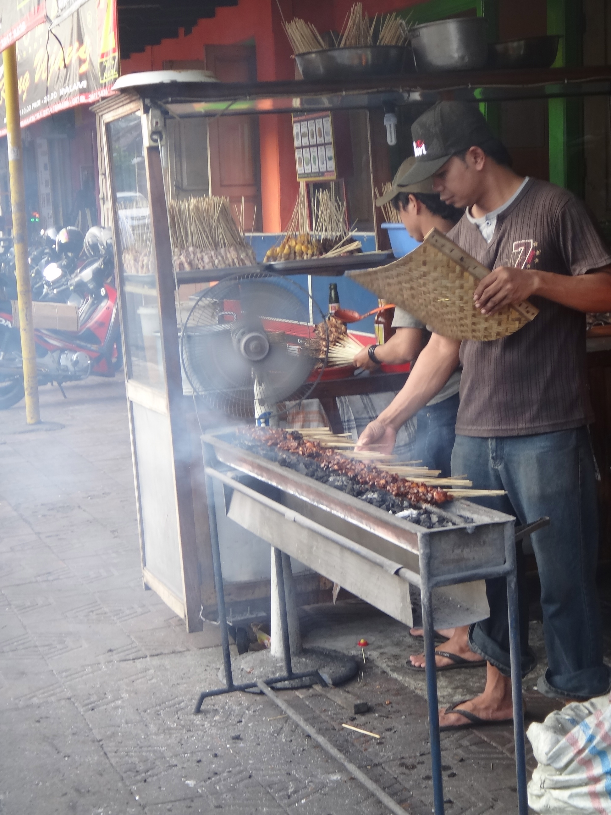 Grilling satay